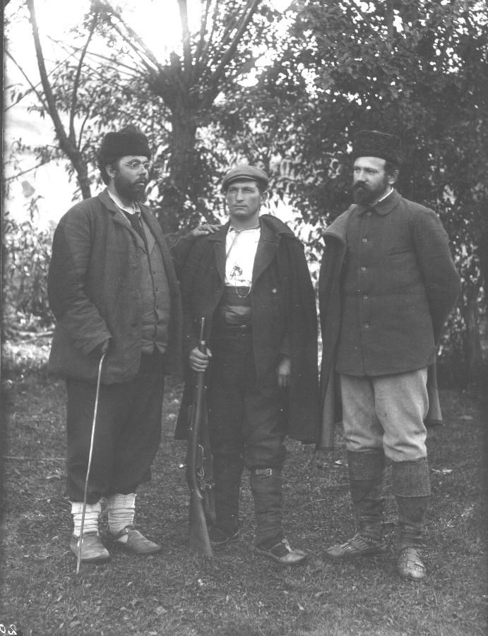 Voevoda Sotir Atanasov from Bulgaria, IMARO